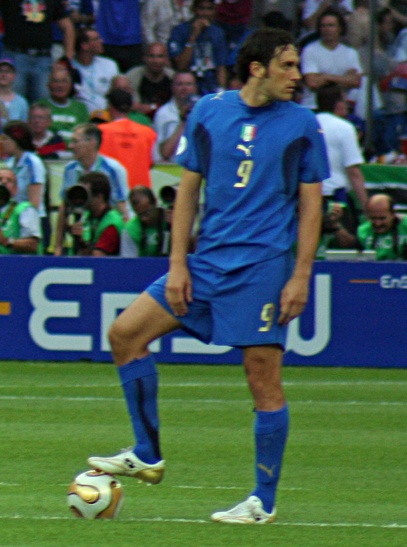 Italy vs France, FIFA World Cup 2006 final, italian forward Luca Toni.